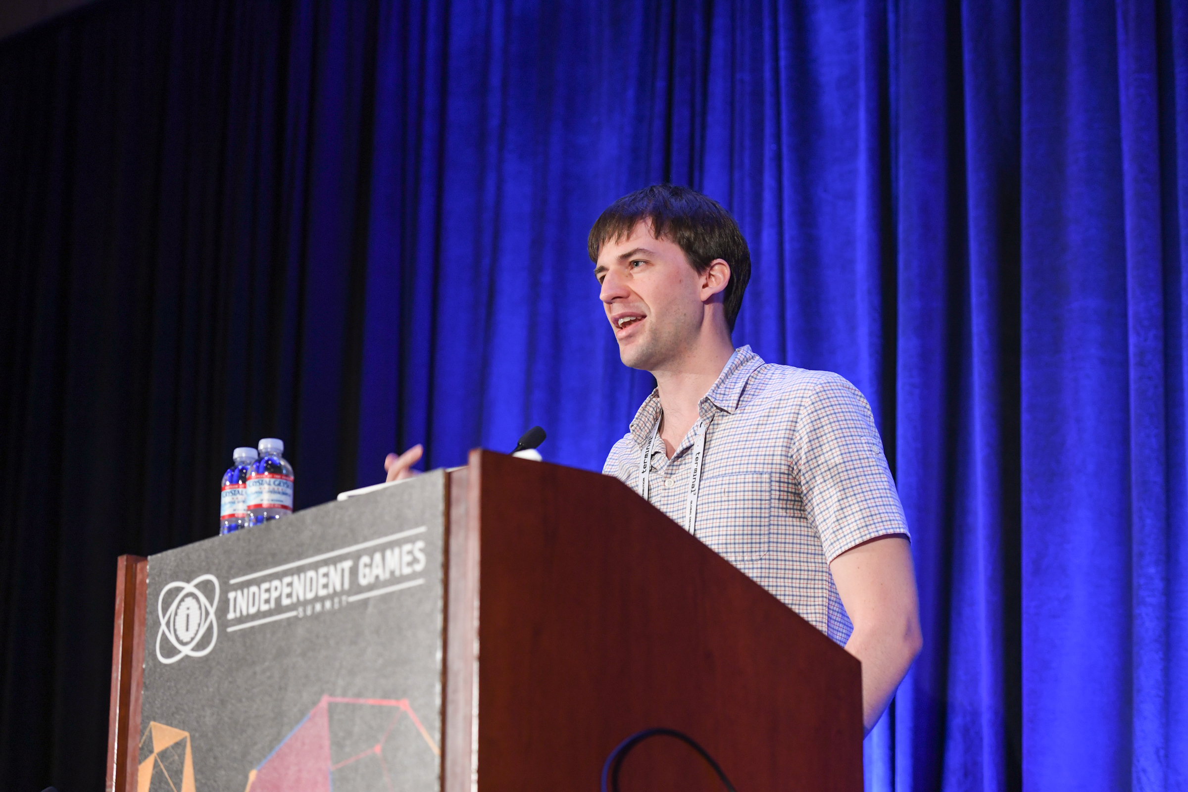 Seven Years in Alpha- 'Thumper' Postmortem, Marc Flury (Drool) at GDC 2017